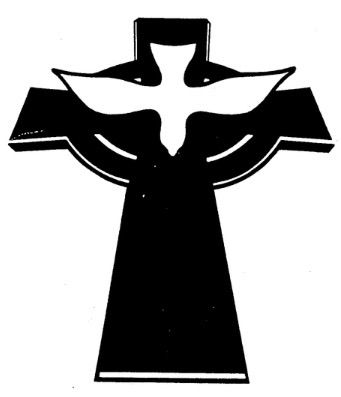 This is the second logo of Trinity Broadcasting Network which was used from 1981 to 1992